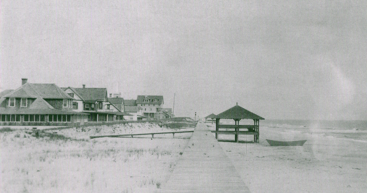 Bethany Beach sometime between the completion of its original, surface-level boardwalk in 1903 and the destruction of that boardwalk by a storm in 1920.